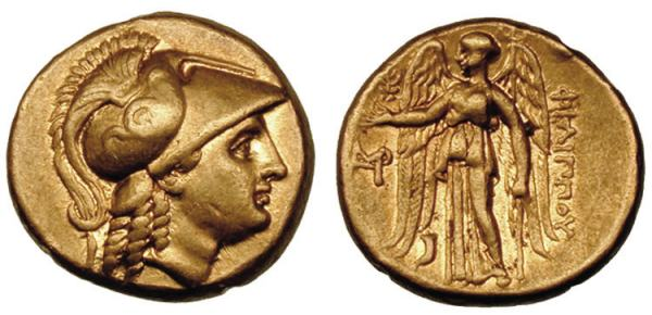 Philip III Arrhidaeus (323-317 BC). AV stater Head of Athena left, wearing crested Corinthian helmet ornamented with coiled serpent device / Nike standing right, holding wreath and stylis, FILIPPOU monogram in left field, horn under left wing